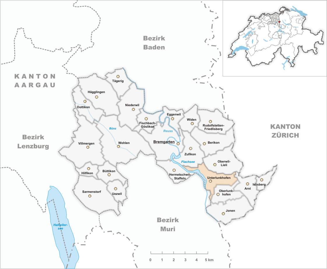 Municipality Unterlunkhofen